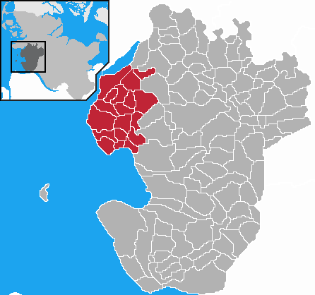 This map shows the area of the Amt (county) Büsum-Wesselburen in the Kreis (district) Dithmarschen, Schleswig-Holstein, Germany.